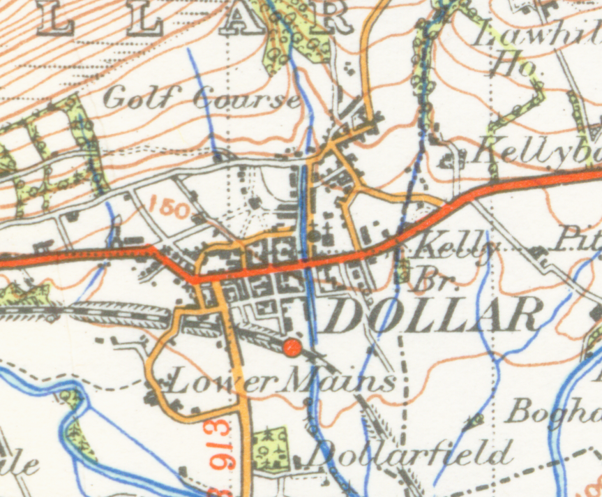 map of Dollar 1 inch to the mile scale scanned at 600 DPI